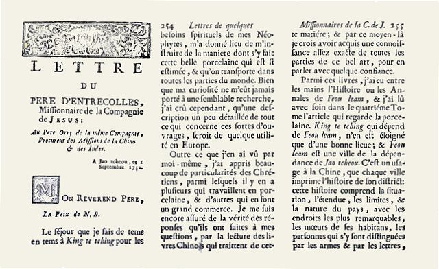 Lettre_du_pere_Entrecolles 1712 du Halde 1735